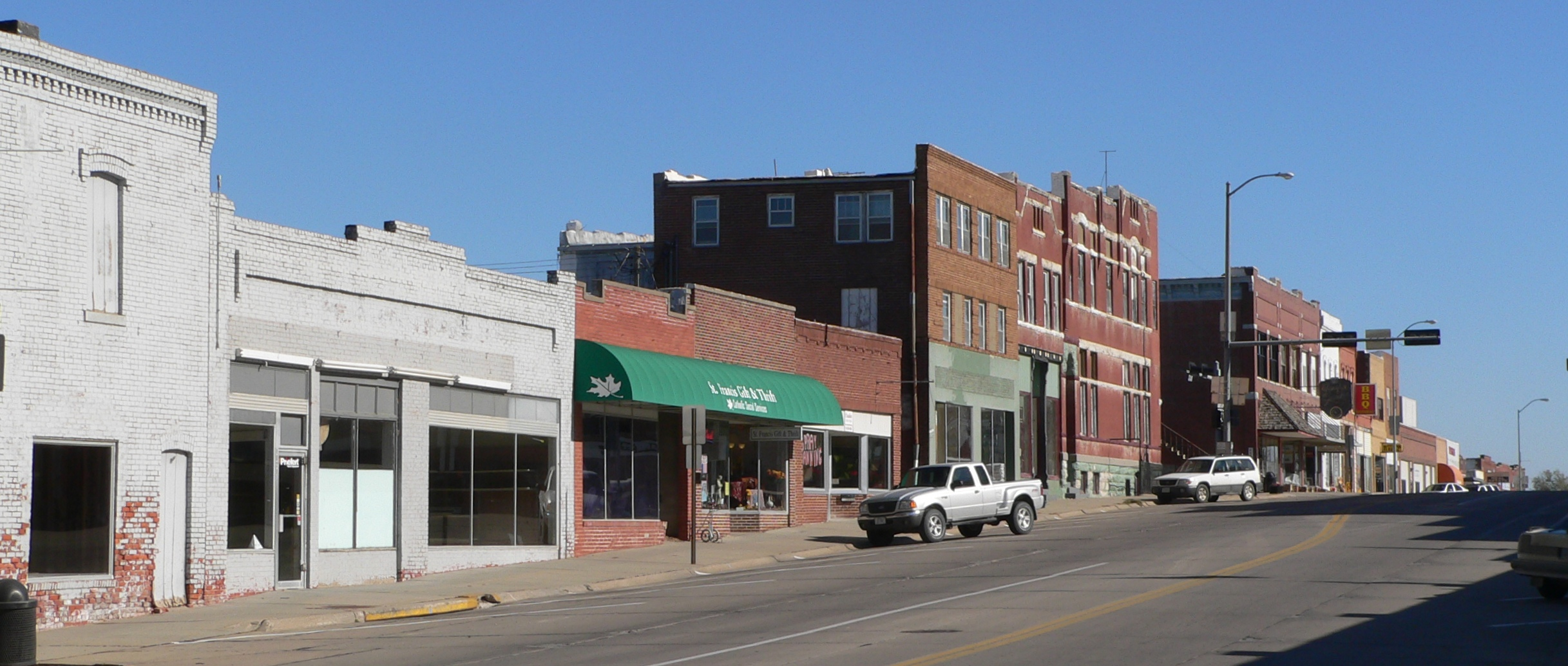 Auburn, Nebraska: north side of Central Avenue, looking east from about K Street. This portion of Central lies within the Auburn Historic District, listed in the National Register of Historic Places.